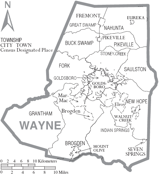 Map of Wayne County, North Carolina, United States with township and municipal boundaries